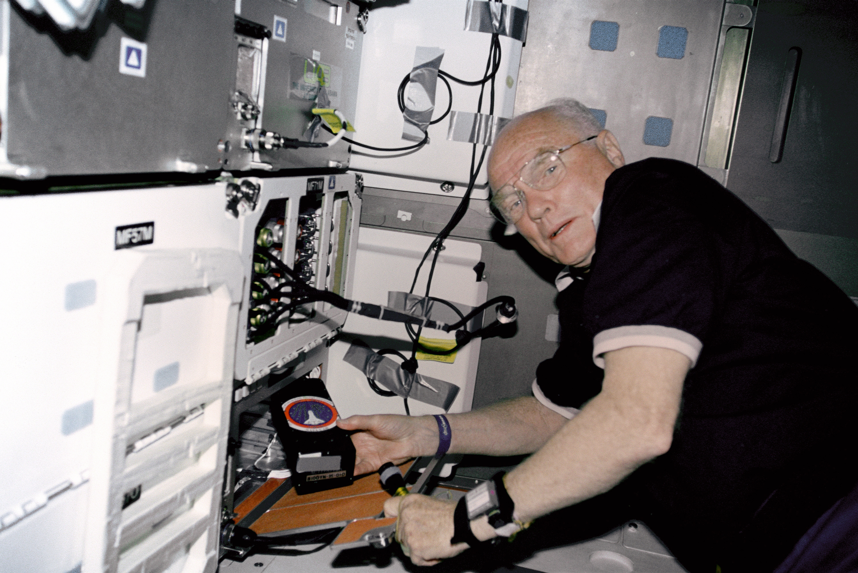 STS-95 payload specialist John Glenn works with the Osteporosis Experiment in Orbit (OSTEO) experiment located in a locker in the Discovery's middeck. Image # : STS095-341-003